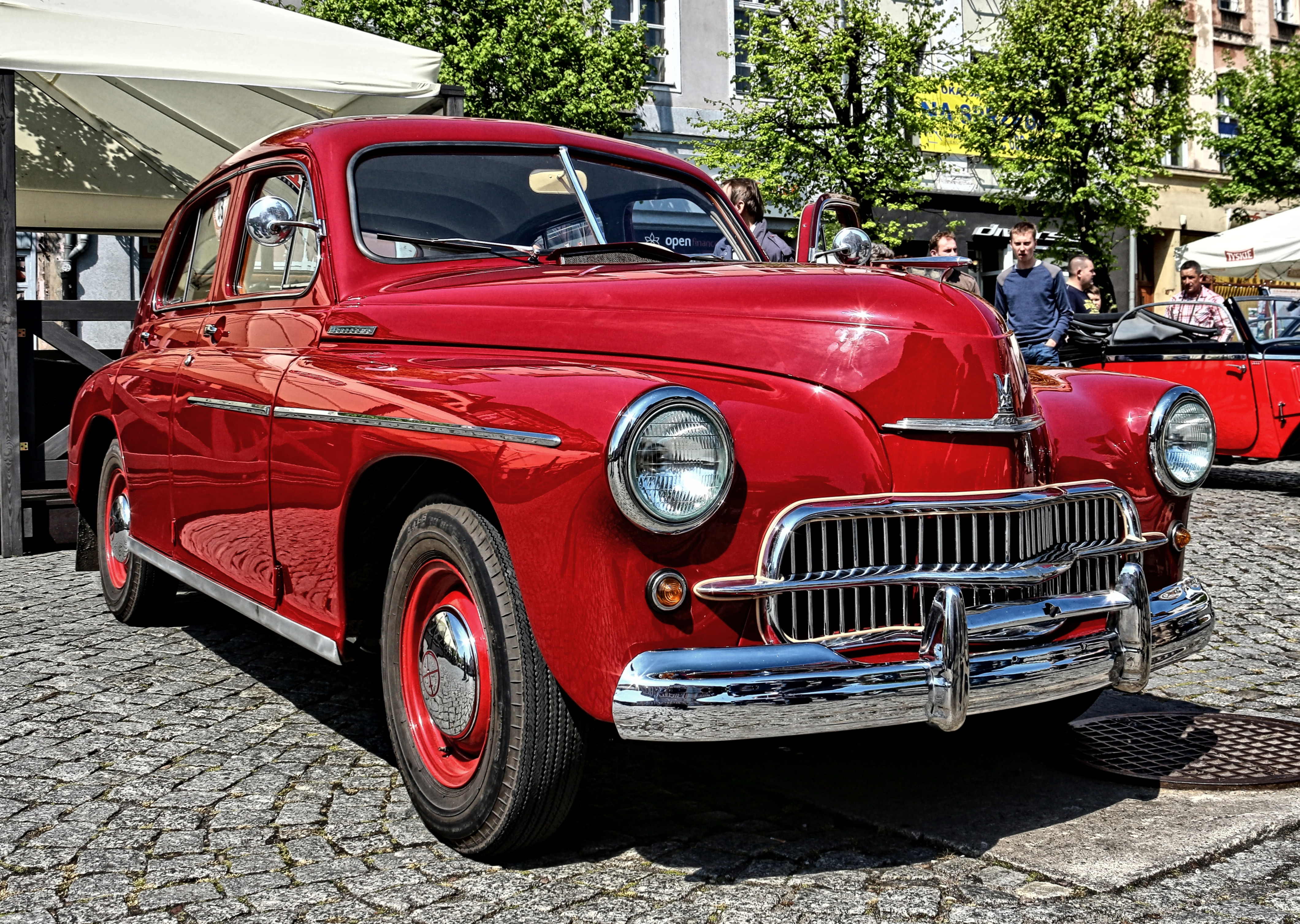 FSO Warszawa M200 (200) 1957